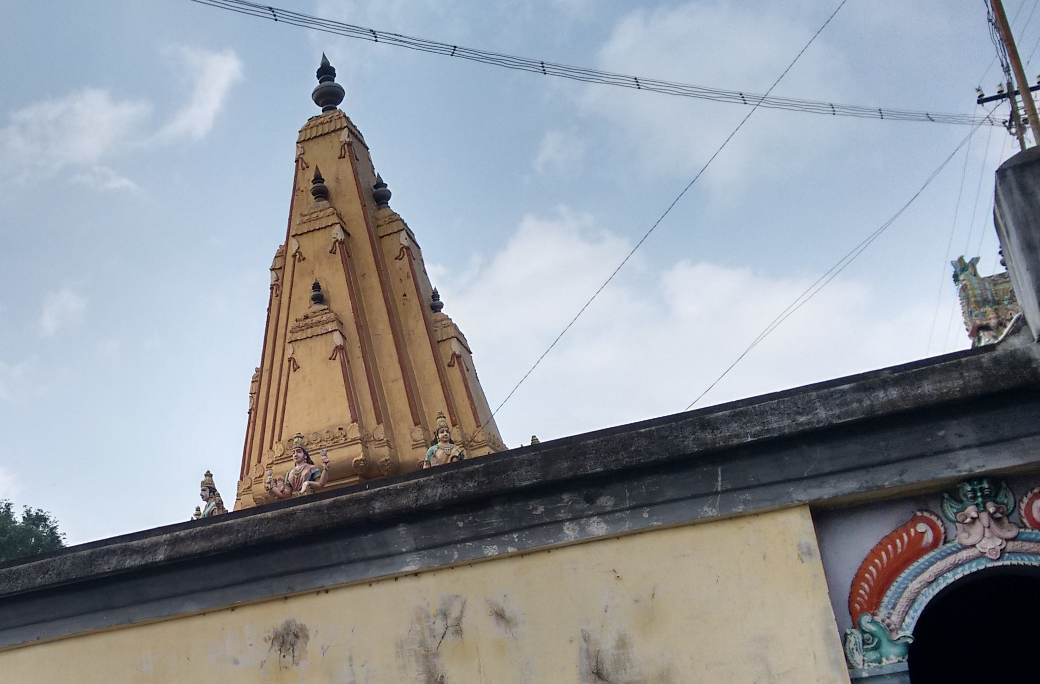 Tiruvidaimaruthur Mahalingeswarar temple திருவிடைமருதூர் மகாலிங்கேஸ்வரர் கோயில்